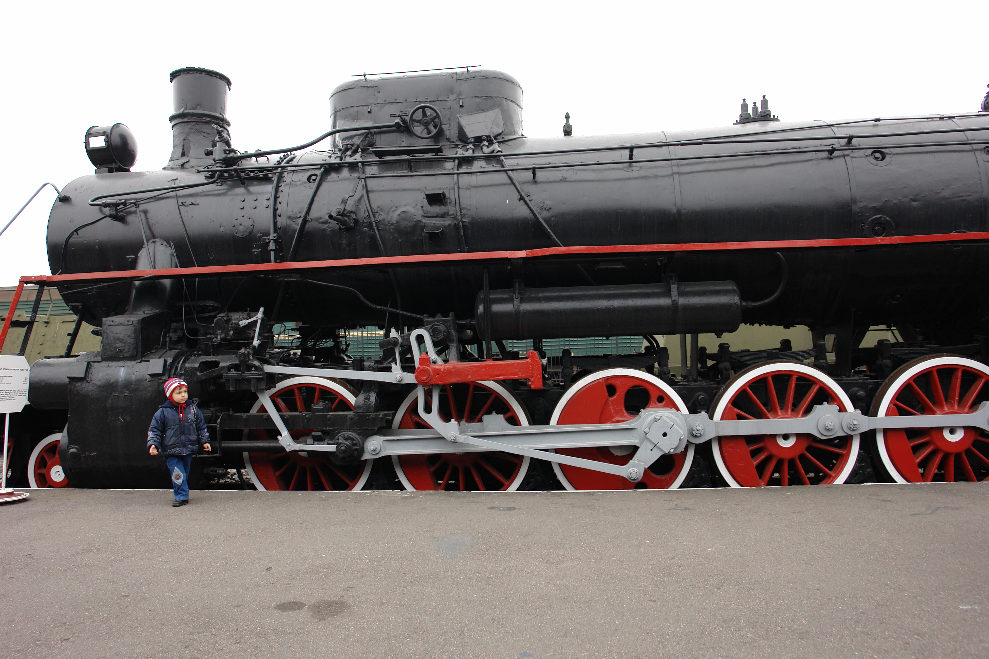 Freight steam locomotive FD20 1103 Weight in serviceable condition:excluding tender137 t.including tender235 t.Design speed85 km/hMaximum power on wheel rim3200 hp. The most powerful series-built steam freight locomotive in Russia (3200 hp.). Named after Felix E. Dzerzhinskiy, former chief of the secret police. The introduction of this class had marked the transition from European to American practice of designing locomotives in the USSR. Built by Voroshilovgrad Works in 1936.